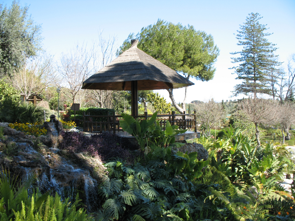 Botanic garden Molino de Inca, Torremolinos, Spain.